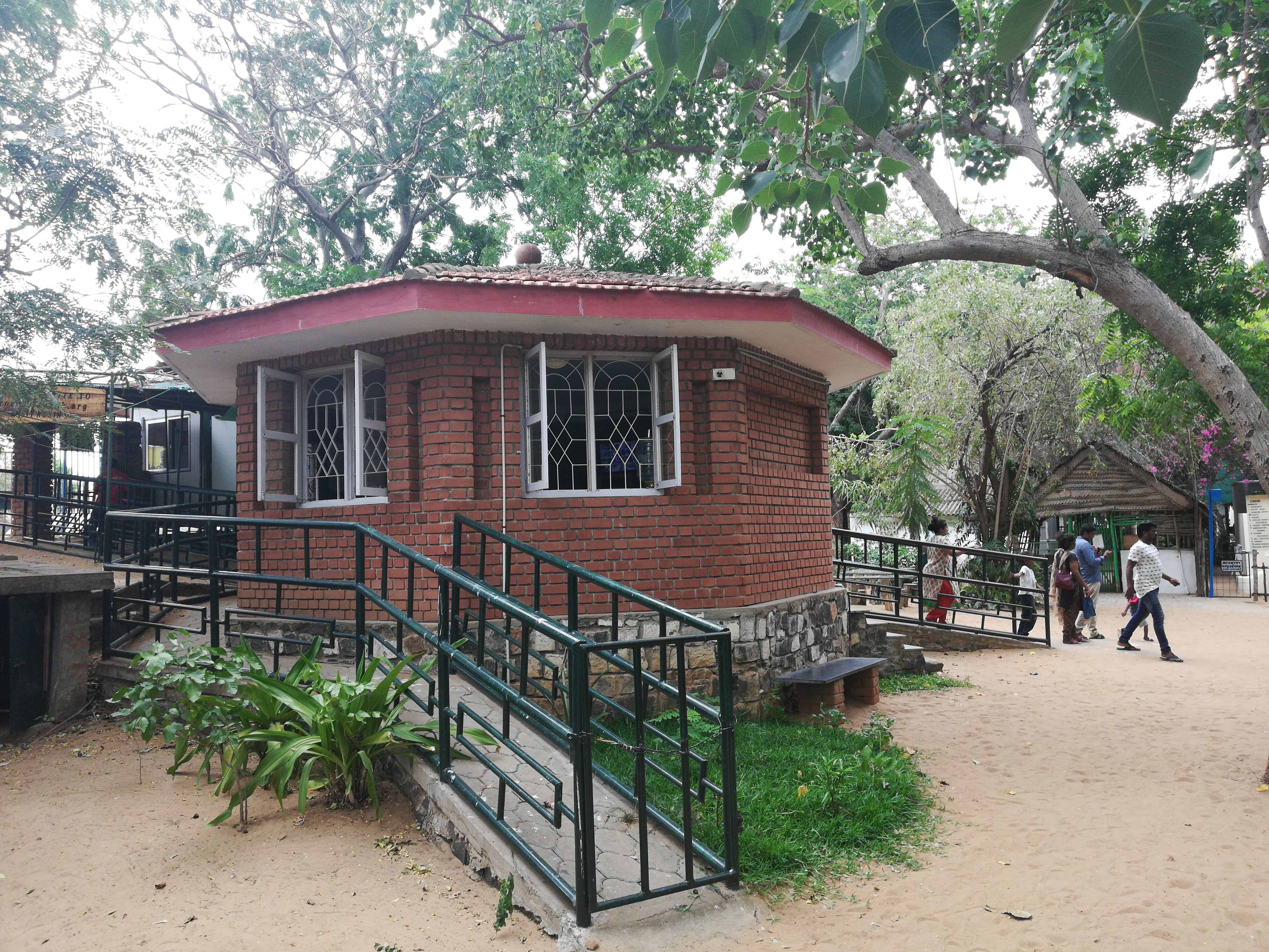 Zoo Manager's office near the entrance of CrocBank, Chennai, on 21 July 2018